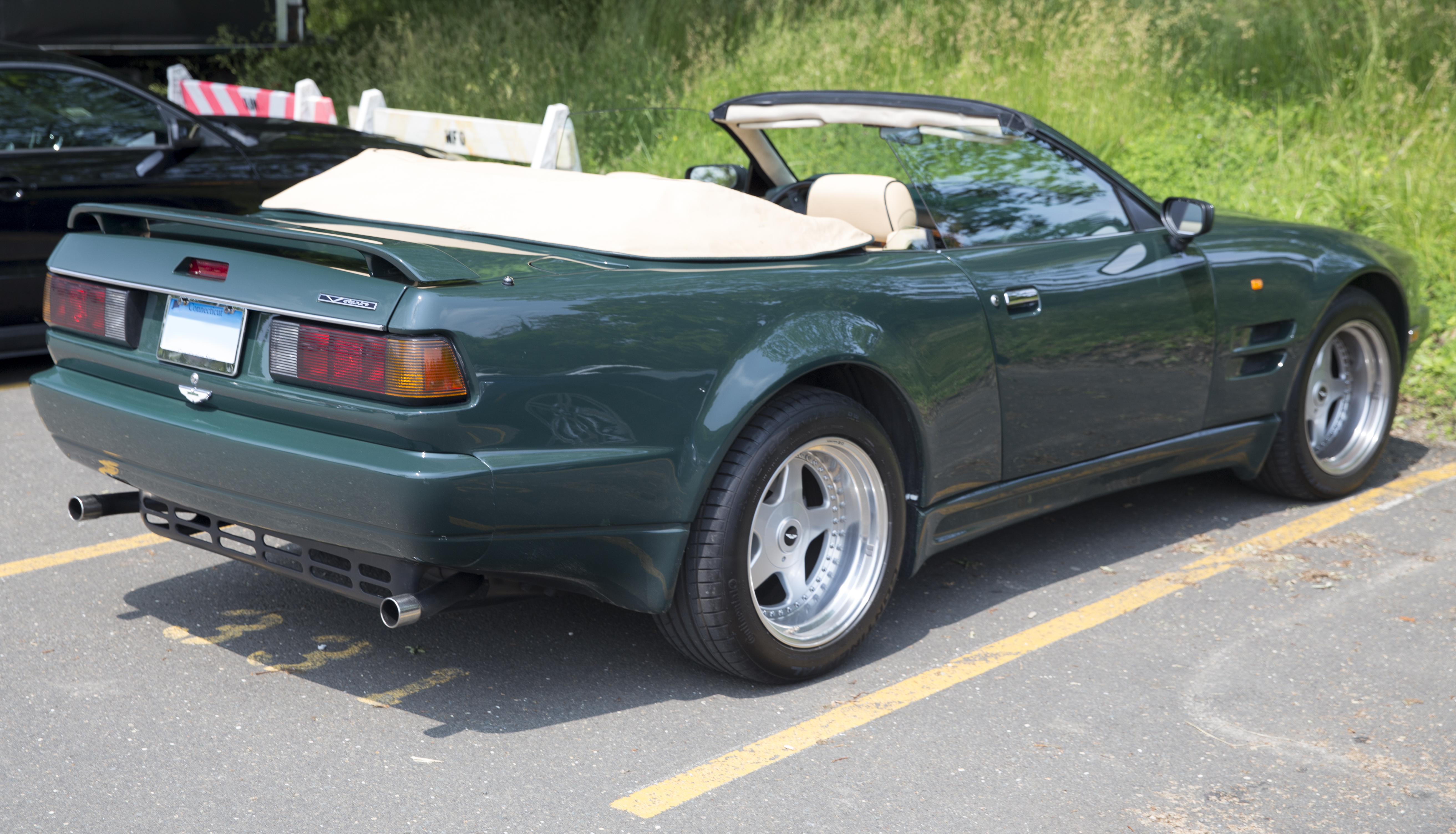 A 1993 Aston Martin Virage Volante Widebody in the parking lot at the 2019 Greenwich Concours d'Elegance. One of 13 Widebodies built for the United States, out of a total of either 224 or 233 Volantes overall. From the ad: -Special Order Rolls Royce Racing Green with Rolls Royce Champagne leather interior piped Spruce Green, Rolls Royce Sahara Beige carpeting, Fawn Mohair convertible top, 6,000 miles from new, 4-speed automatic transmission. OZ Racing split rim wheels.